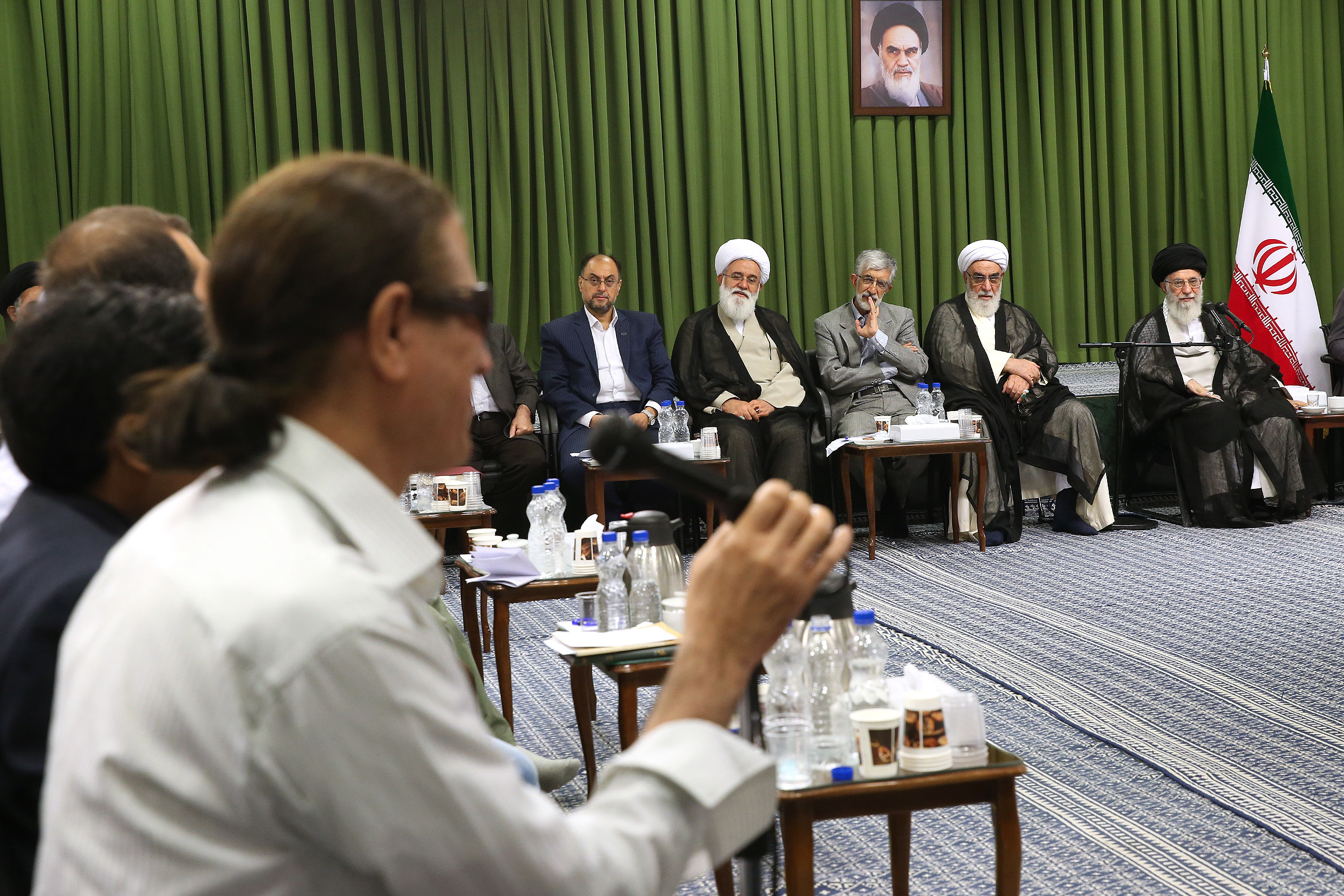 Qader Tahmasebi in a Meeting attended by Poets and people of culture and literature with Ali Khamenei-June 2017